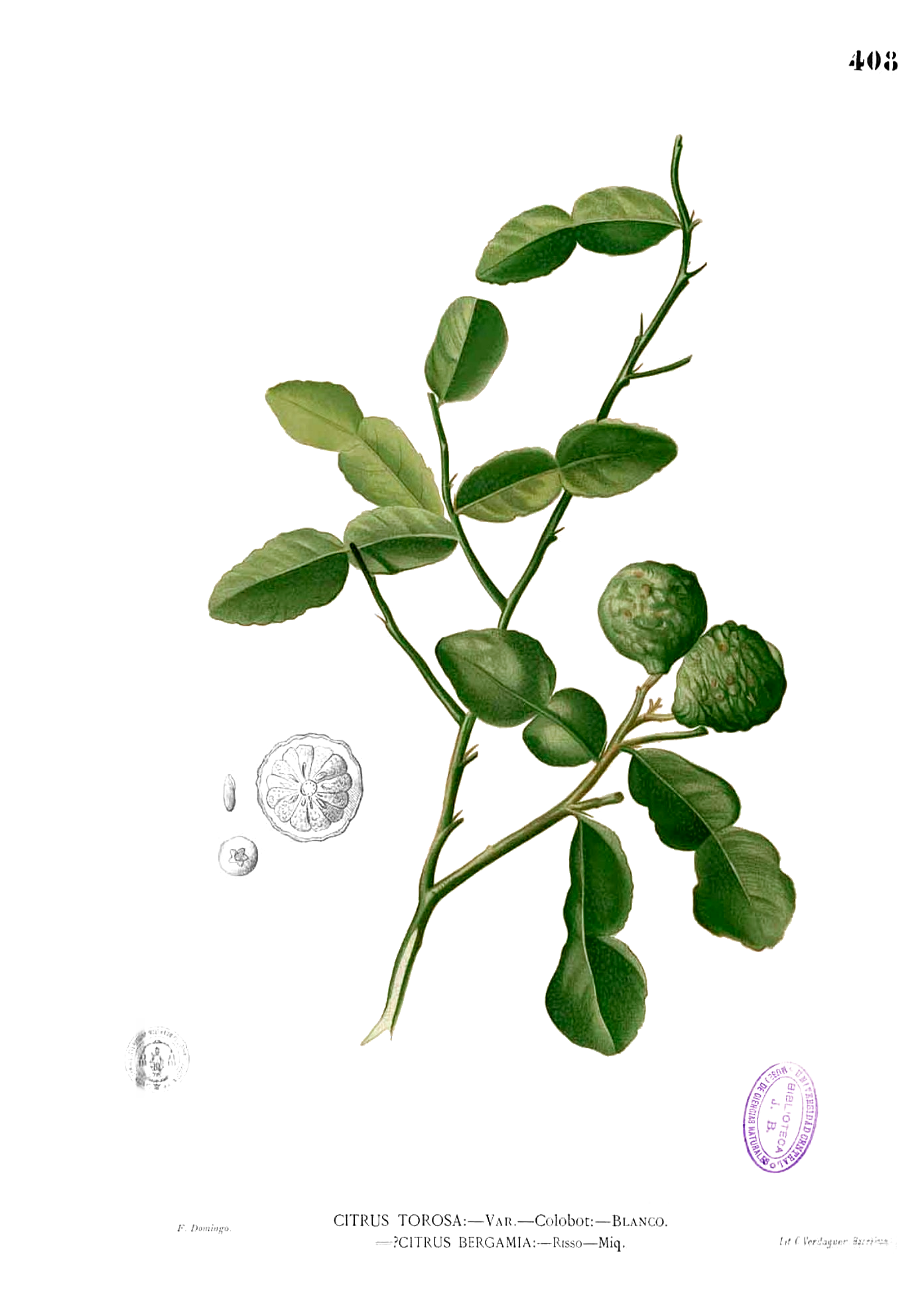 Plate from book